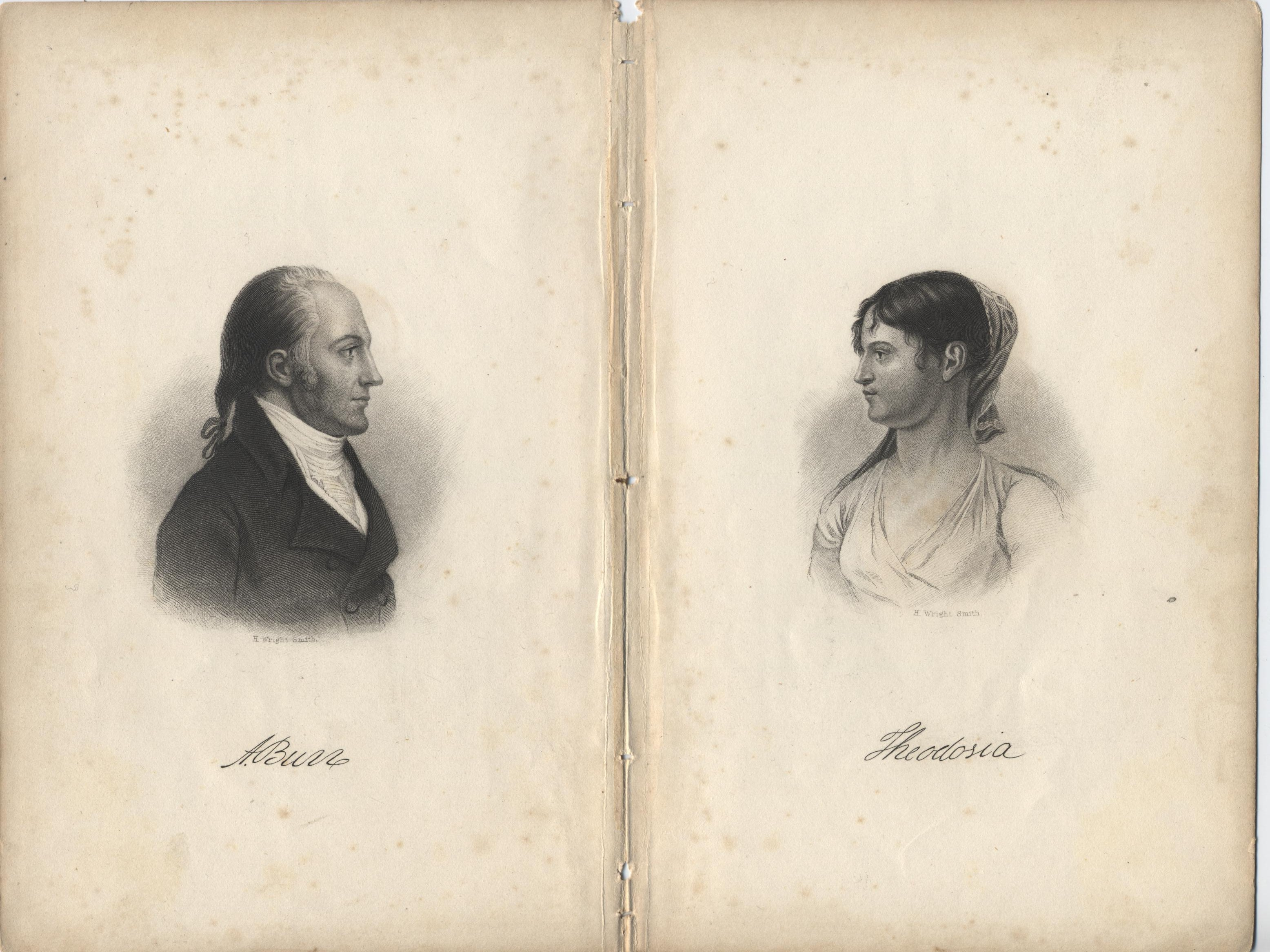 Aaron Burr and his daughter Theodosia